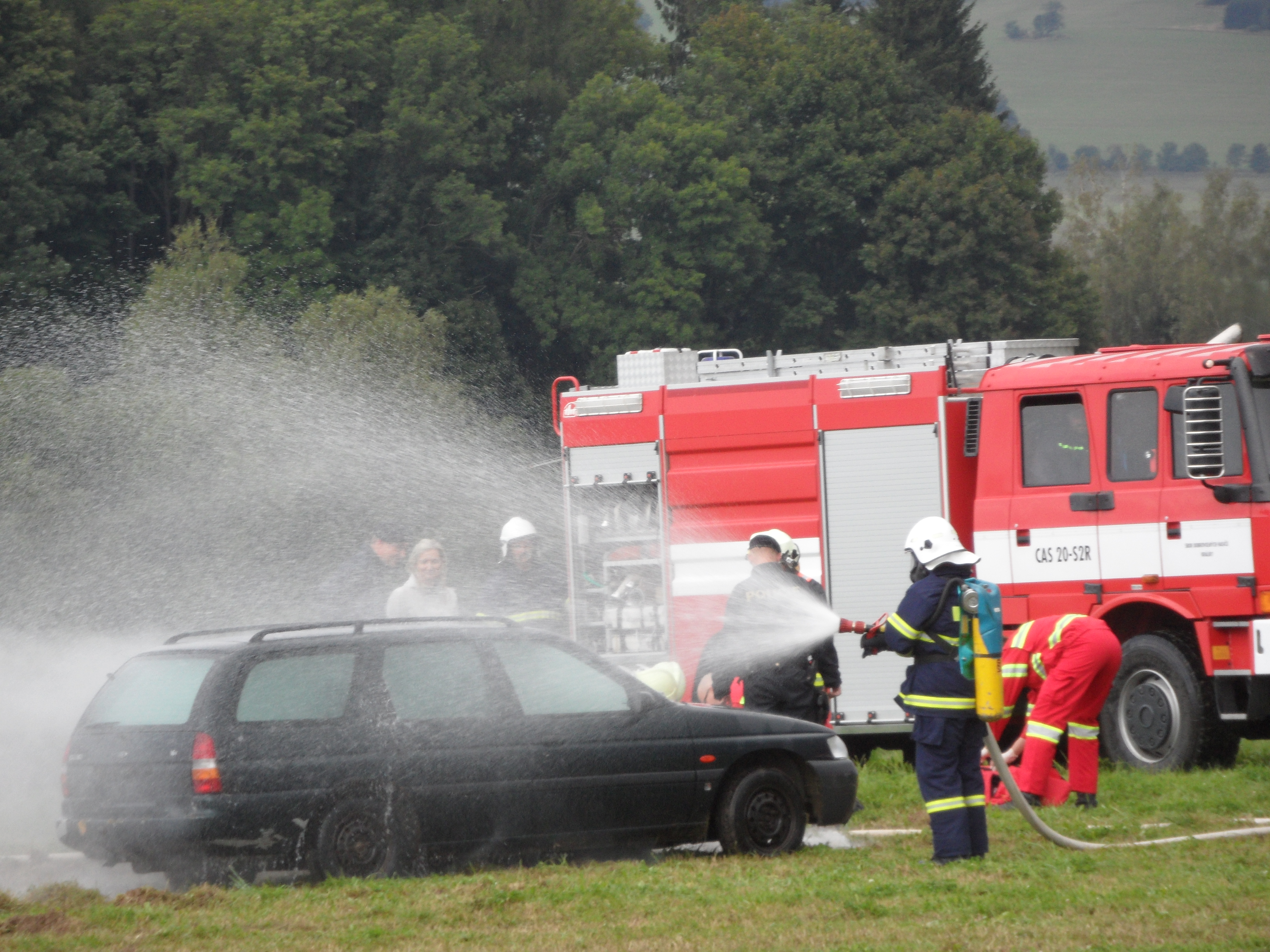 Akce Cihelna 2014 B7. Presentation of Integrated Rescue System, Králíky, Ústí nad Orlicí District, the Czech Republic.